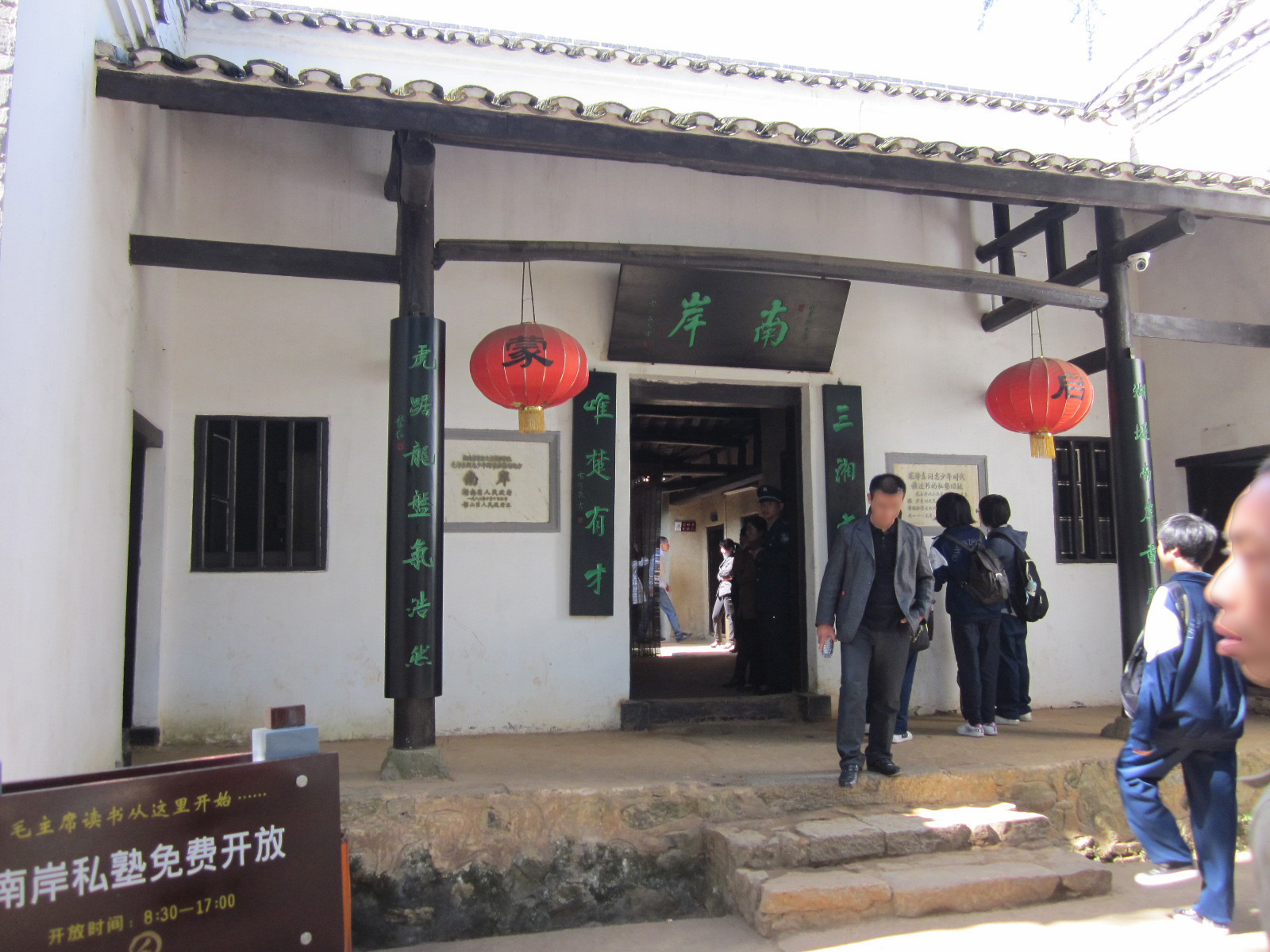 NanAn School